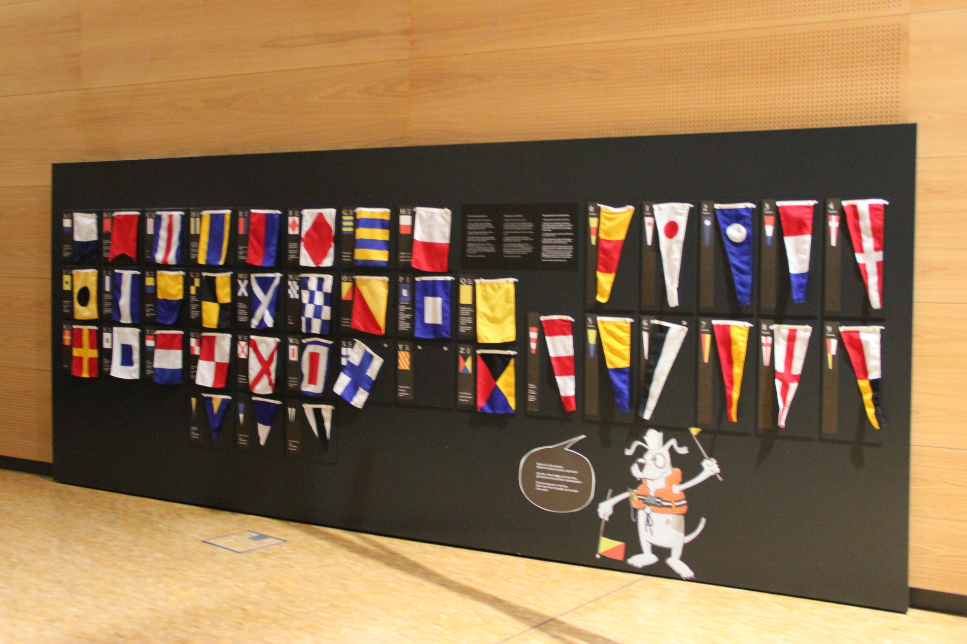 Nautical signal flags in Maritime Centre Vellamo, in Kotka, Finland